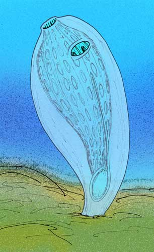 The Ediacaran organism, Ausia fenestra, reconstructed as a tunicate chordate, from Precambrian Namibia